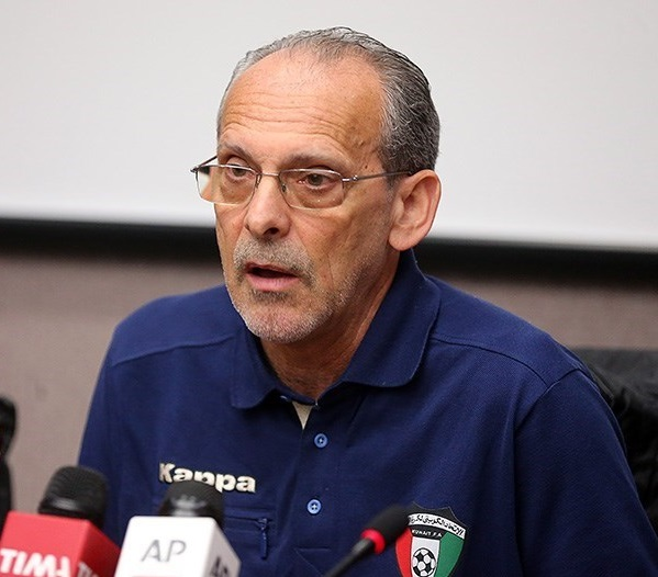 Jorvan Vieira, head coach of Kuwait national football team in press conference before match with Iran